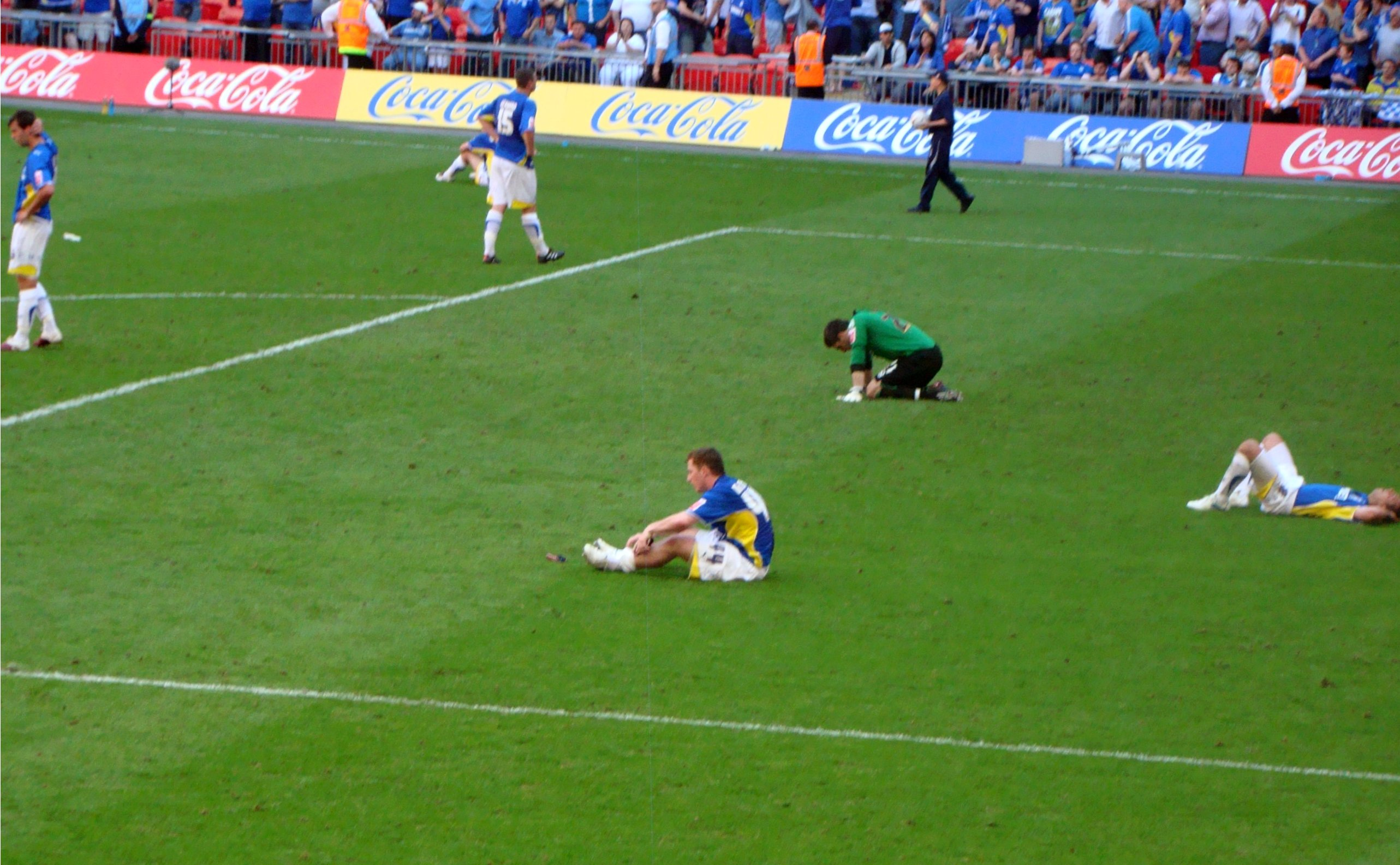 22/05/10 Cardiff V Blackpool, Championship Final, Wembley, England